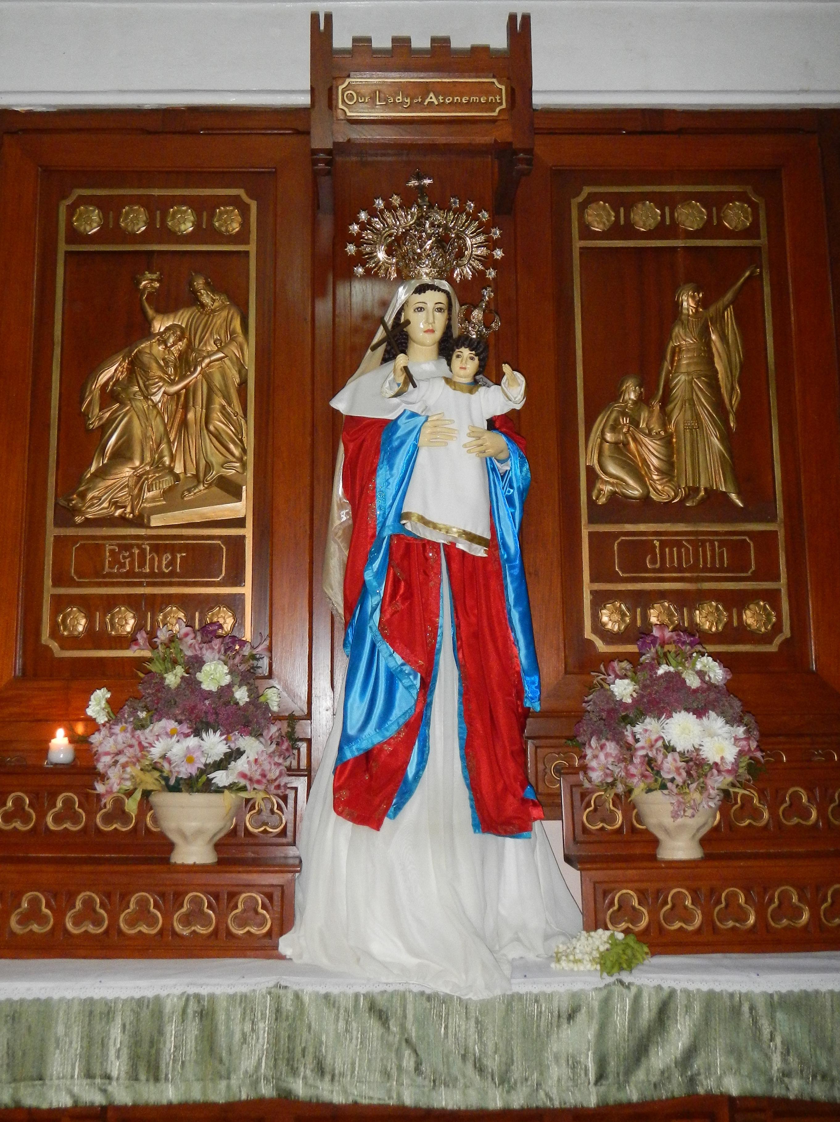 The statue of Our Lady of Atonement venerated at the Baguio Cathedral in Baguio City, in the Philippines.